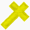 United States Navy Chaplain insignia for the Christian faith group.